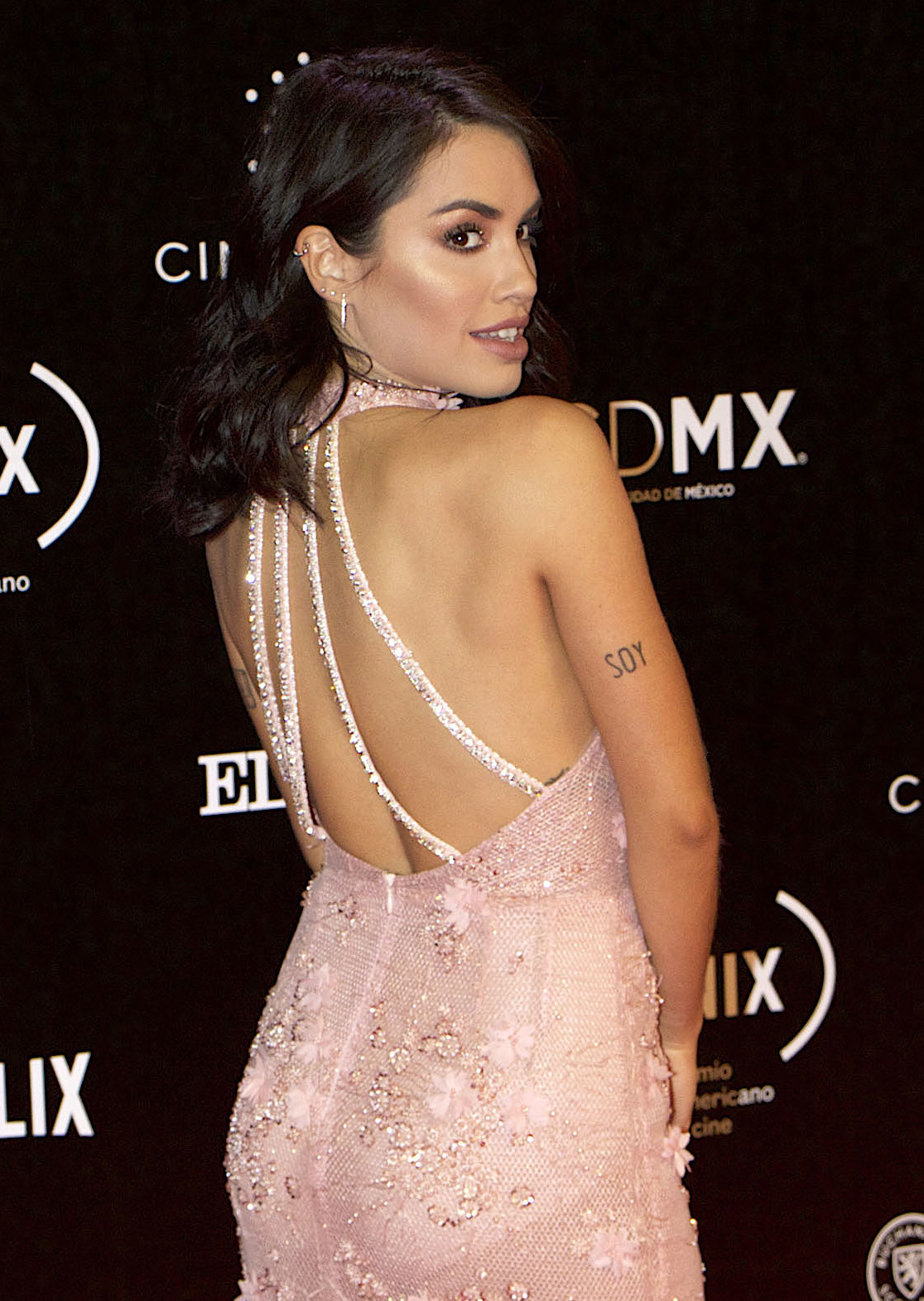 Miércoles 7 de noviembre de 2018Previo a la entrega de los Premios Fénix 2018, actores, actrices, elencos de las películas y series nominadas, pasaron por la alfombra roja, en la parte exterior del Teatro de la Ciudad Esperanza Iris.Fotografía: Milton Martínez / Secretaría de Cultura CDMX